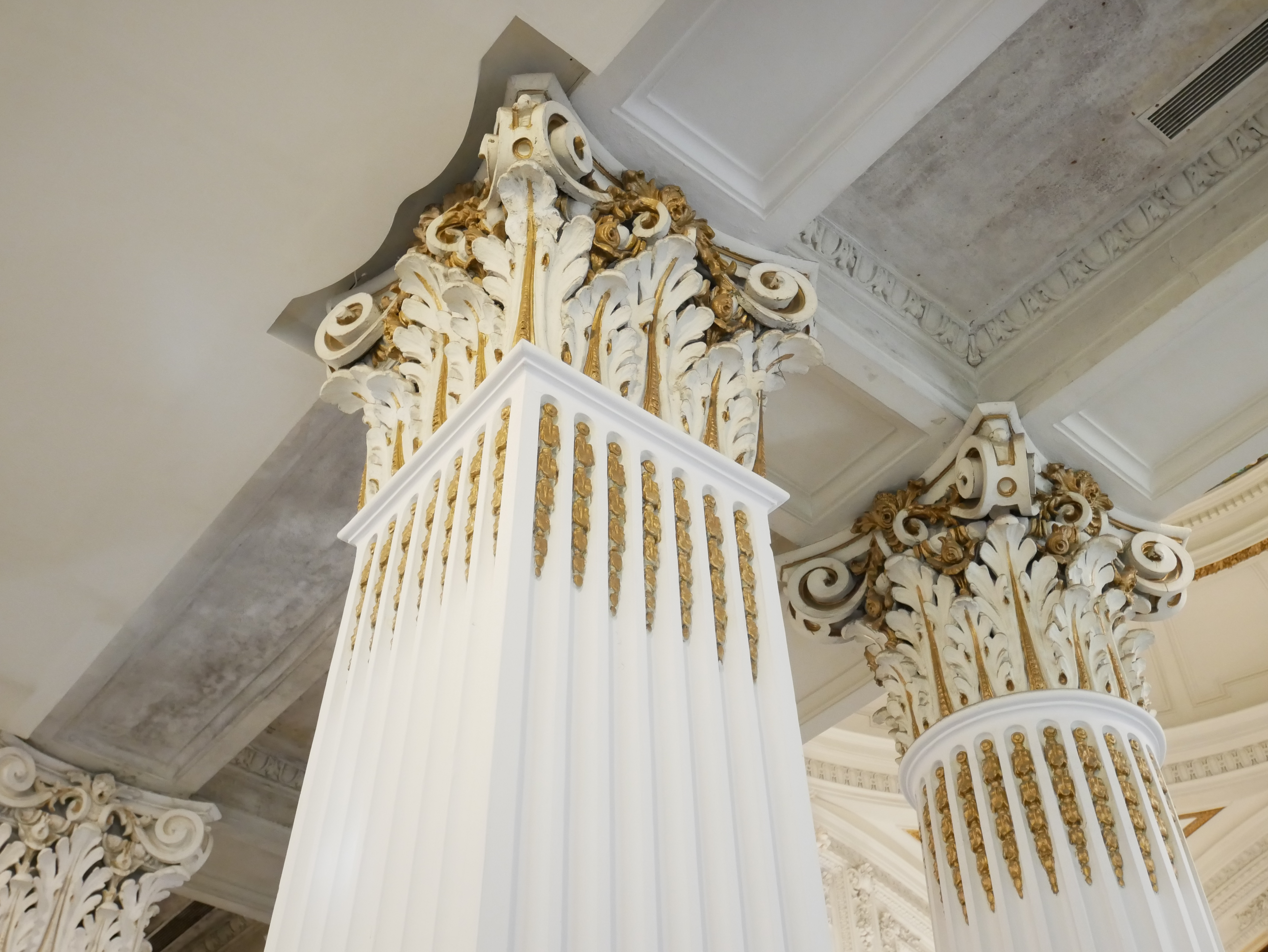 臺灣總督府民政部殖產局附屬博物館大廳柱頭，臺北市中正區城內次分區黎明里